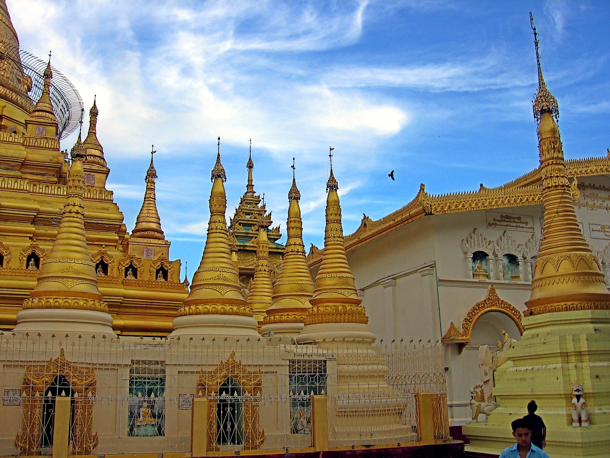 Shwezigon Paya in Monywa, Myanmar.